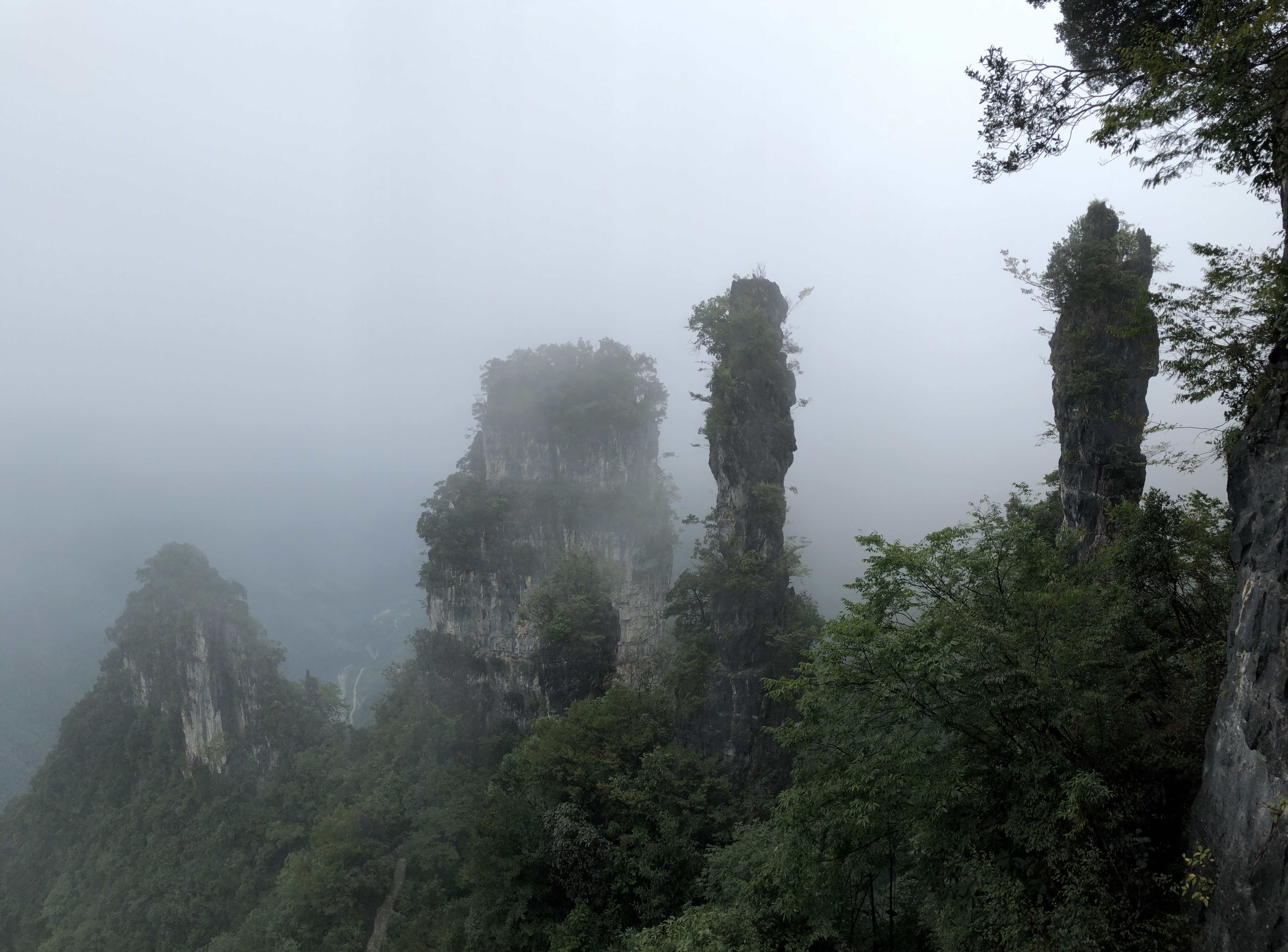 Chai Buxi Grand Canyon Scenic Spot Located At The Western Hubei Province Wufeng Tujia Autonomous County.